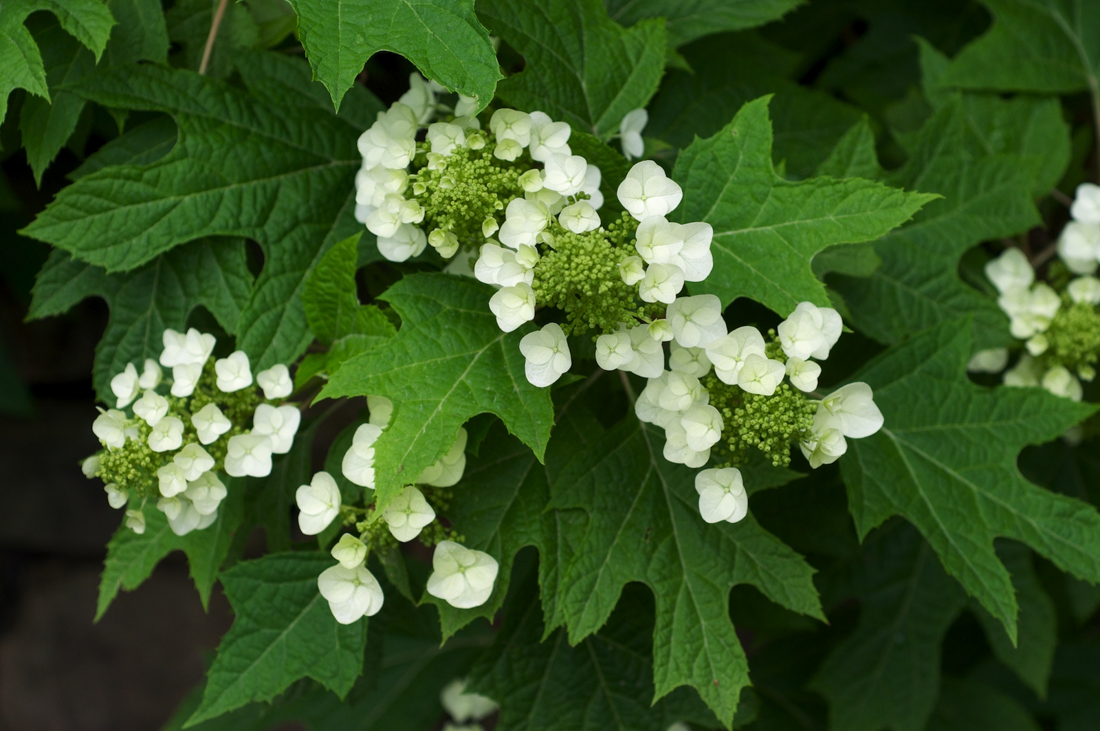 Species from Southeastern North America Photographed in the Birmingham Botanical Gardens